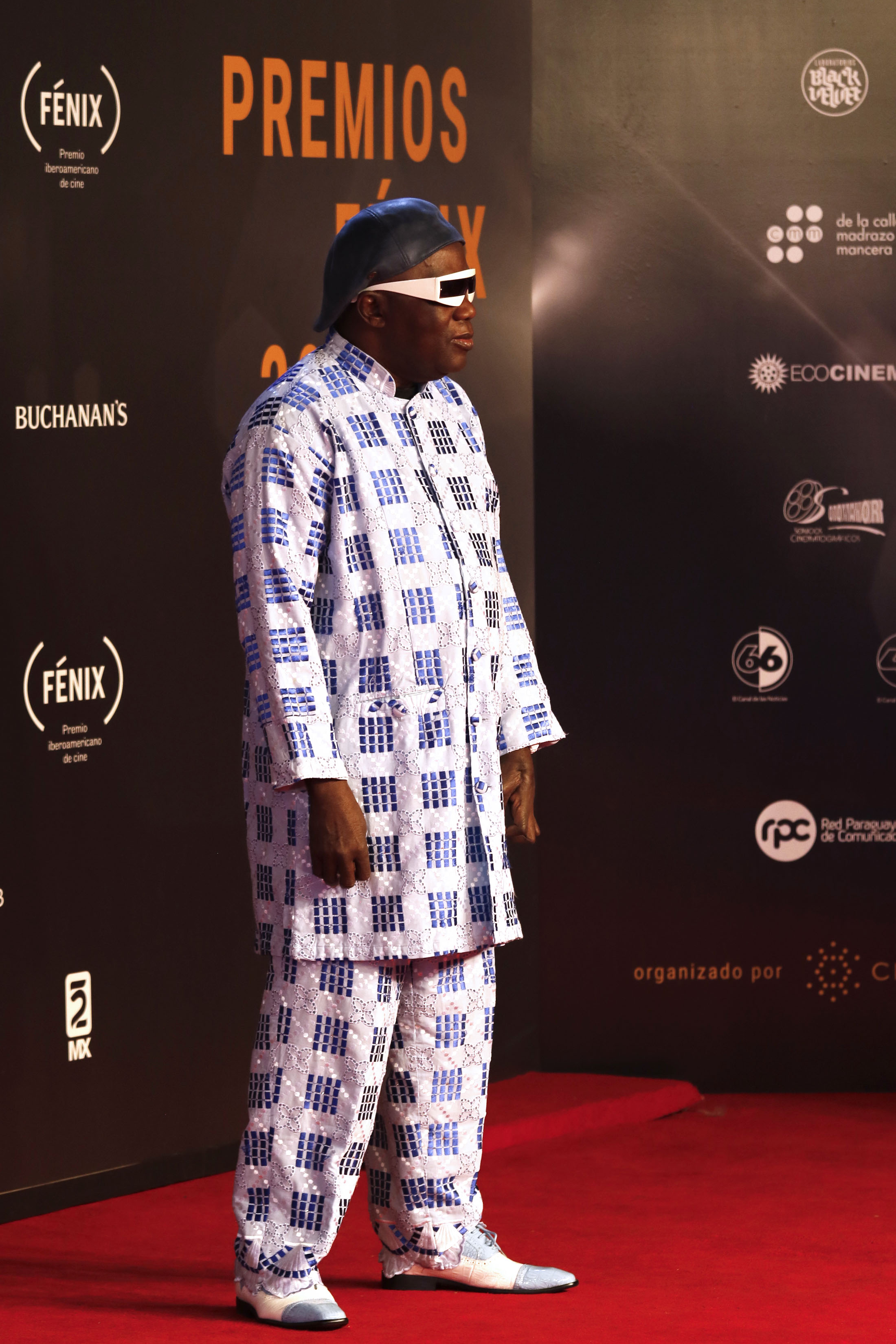 Foday Musa Suso on the red carpet of Fenix Awards. Mexico City, 6 December, 2017. Photographer: Milton Martínez / Secretaría de Cultura CDMX.